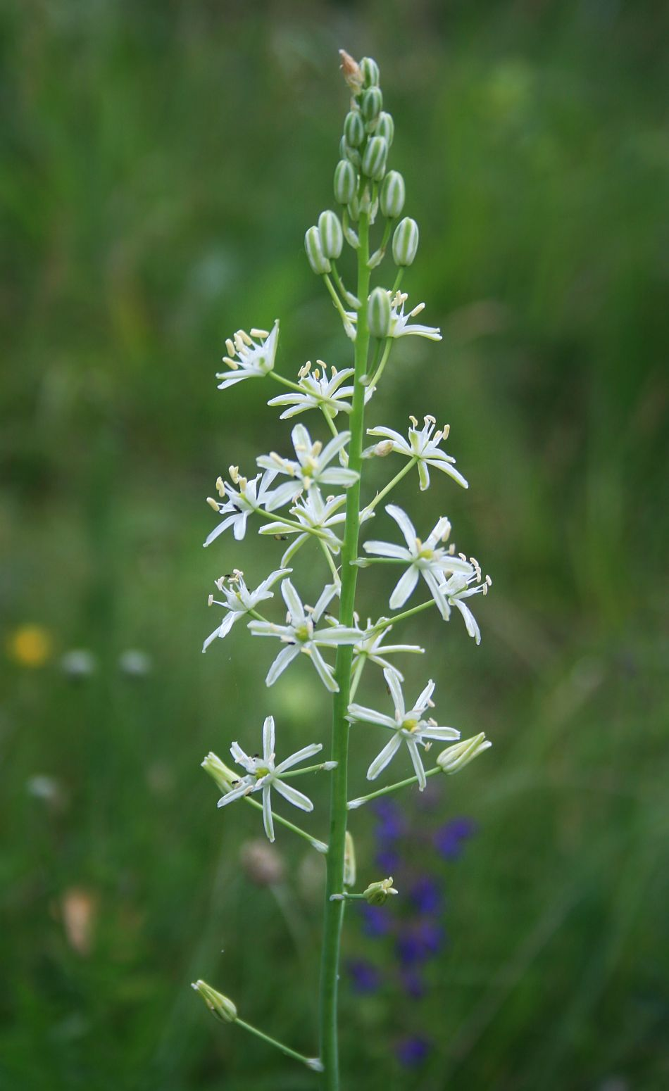 Blasser Pyrenäen-Schaftmilchstern (Loncomelos pyrenaicus subsp. sphaerocarpus, Syn.: Ornithogalum pyrenaicum subsp. sphaerocarpum), Spargelgewächse (Asparagaceae), Hyazinthengewächse (Scilloideae) - Slowenien/Slovenija/Slovenia: Primorska, "Prärie" NNW Praproče